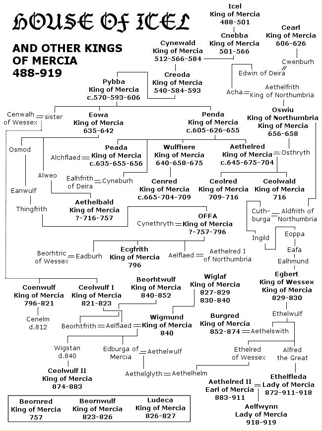 A family tree of the Kings of Mercia